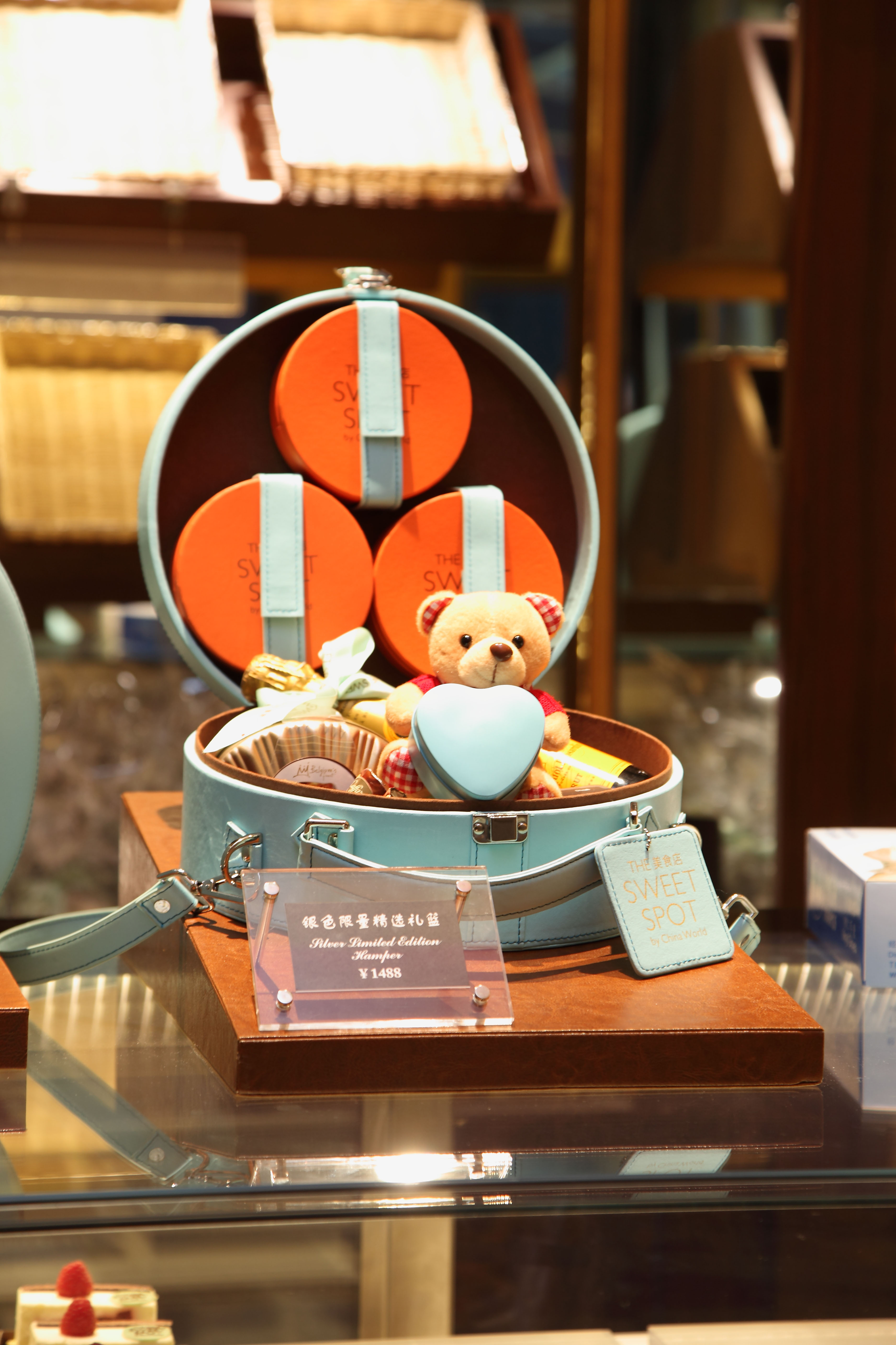 Sweet Spot at China New World Hotel, Beijing